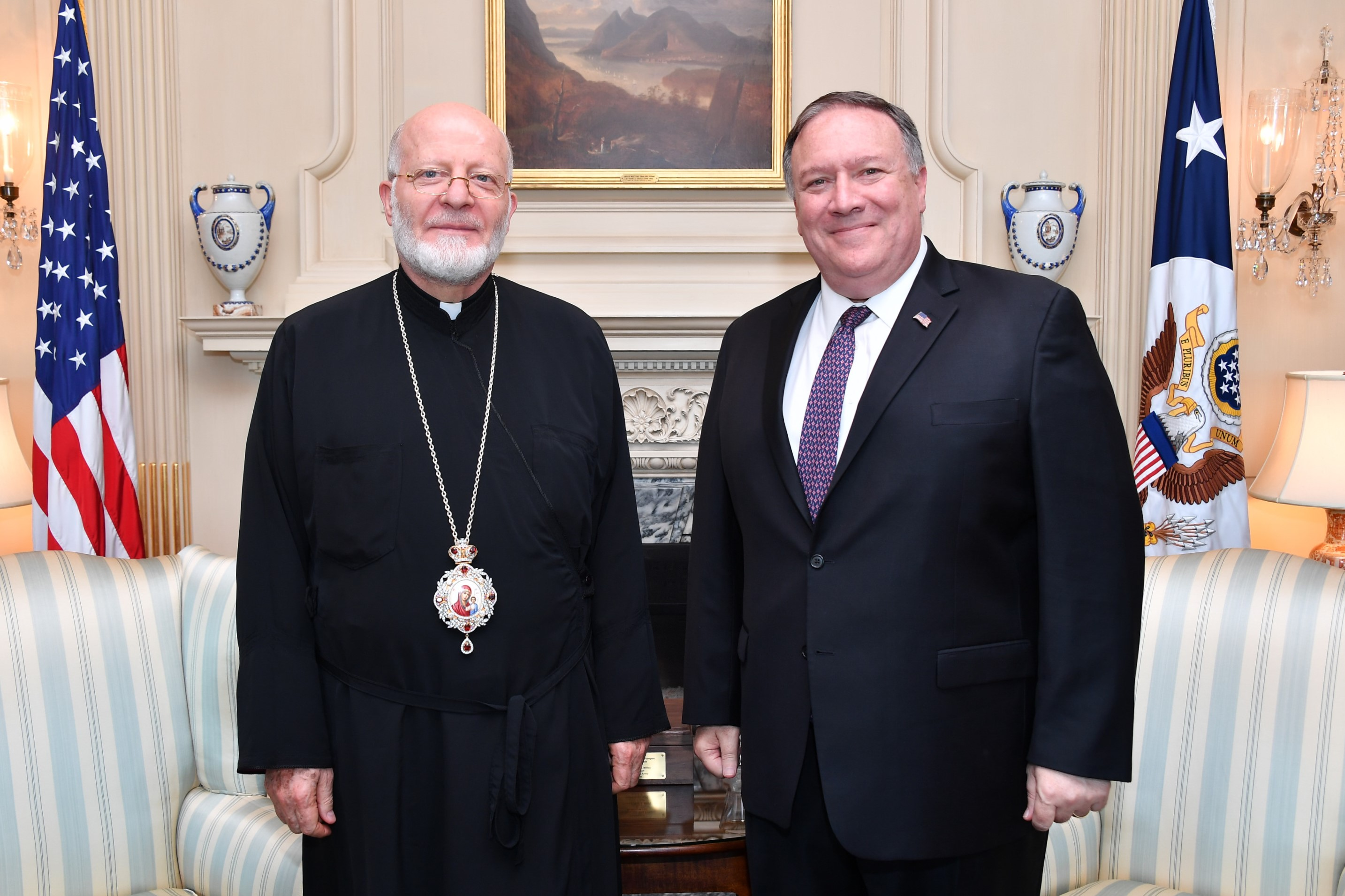 U.S. Secretary of State Michael R. Pompeo meets with with His Eminence Metropolitan Joseph, Archbishop of New York and Metropolitan of All North America, Antiochian Orthodox Christian Archdiocese of North America at the U.S. Department of State in Washington, D.C. on July 15, 2019. [State Department photo by Michael Gross/Public Domain]